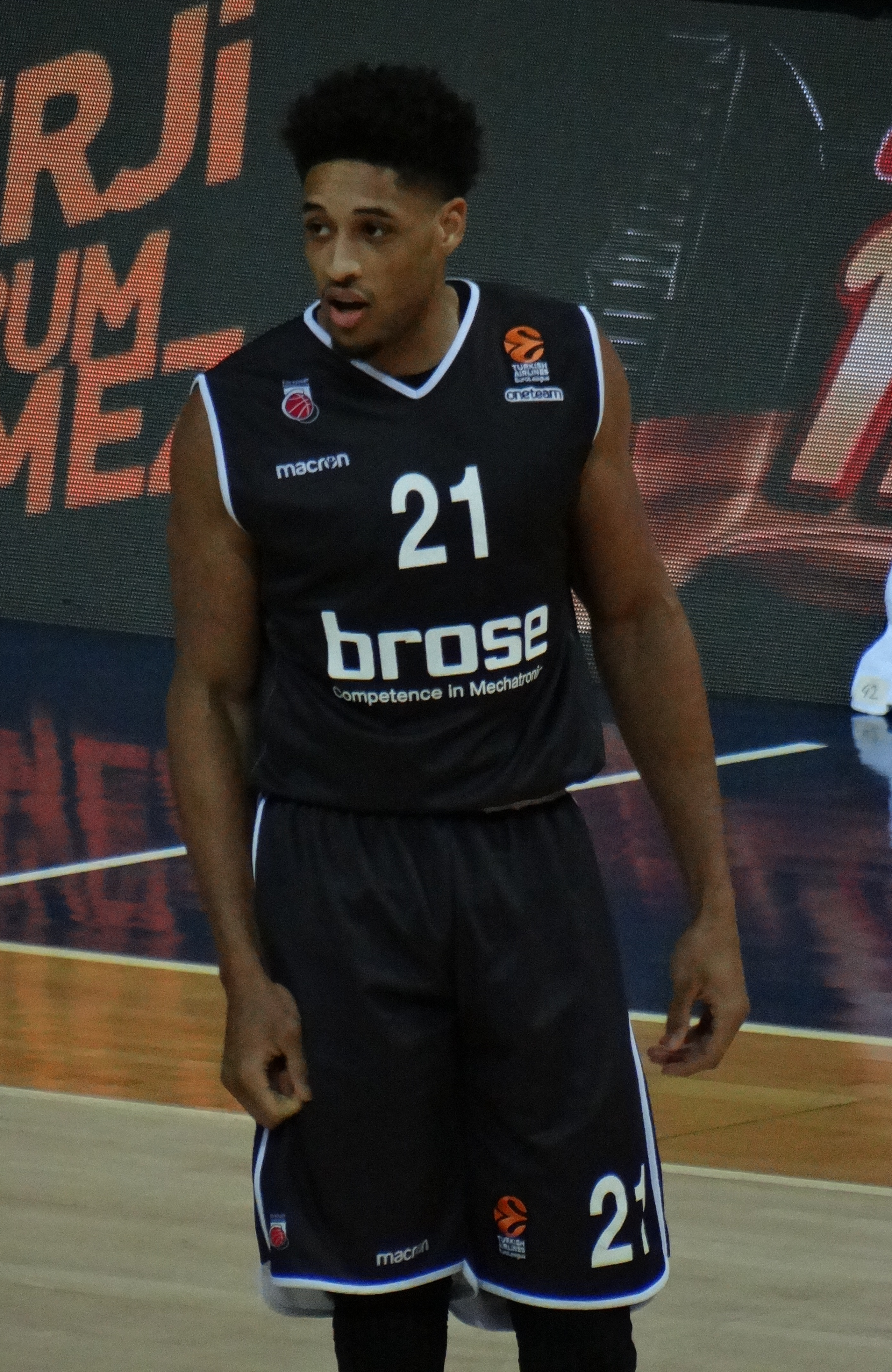 Augustine Rubit 21 Brose Bamberg EuroLeague 20180209